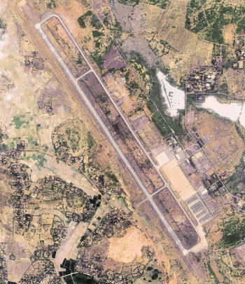 Phu Cat Airport, Vietnam - 2006